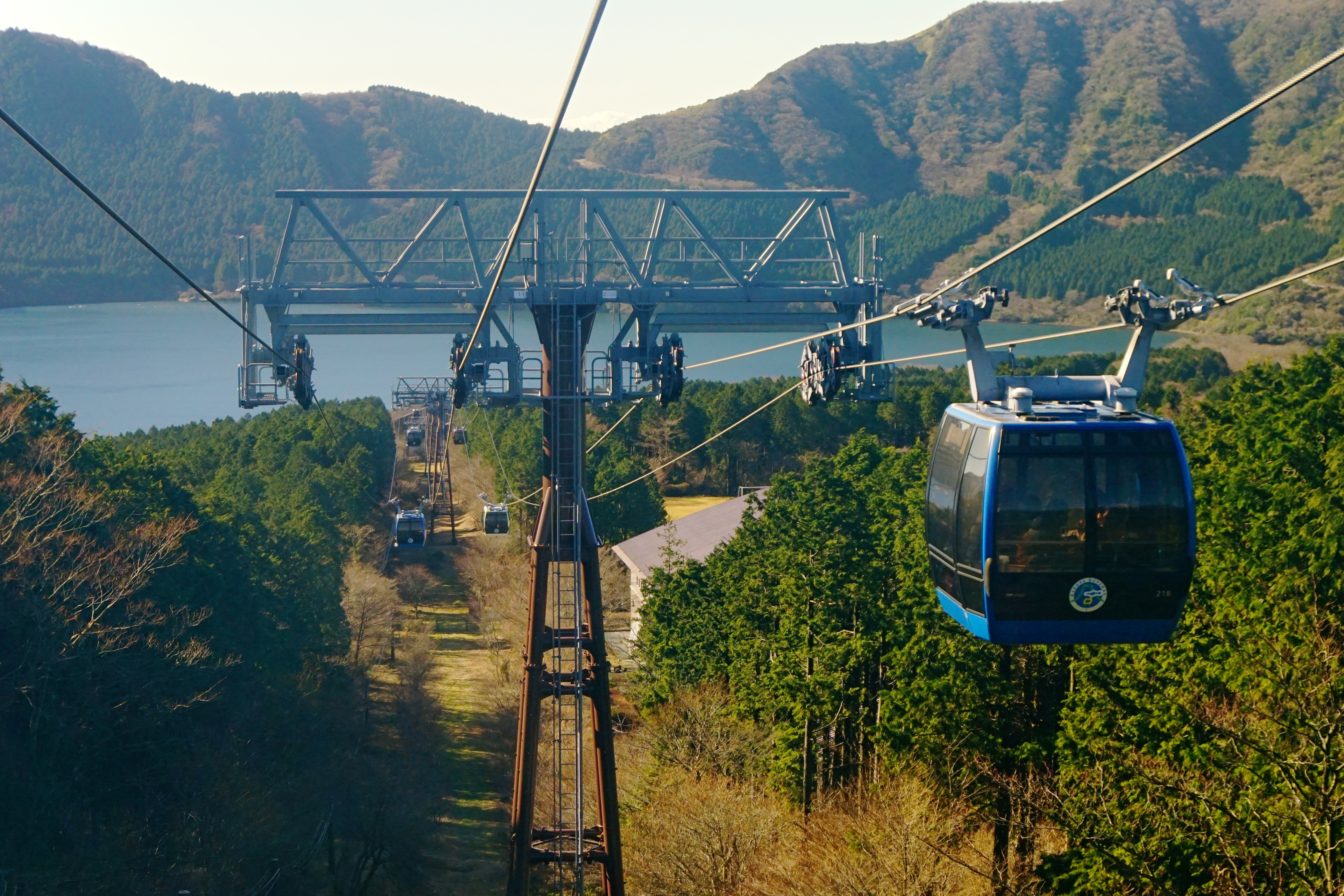 Tōgendai Station in Hakone Kanagawa prefecture, Japan